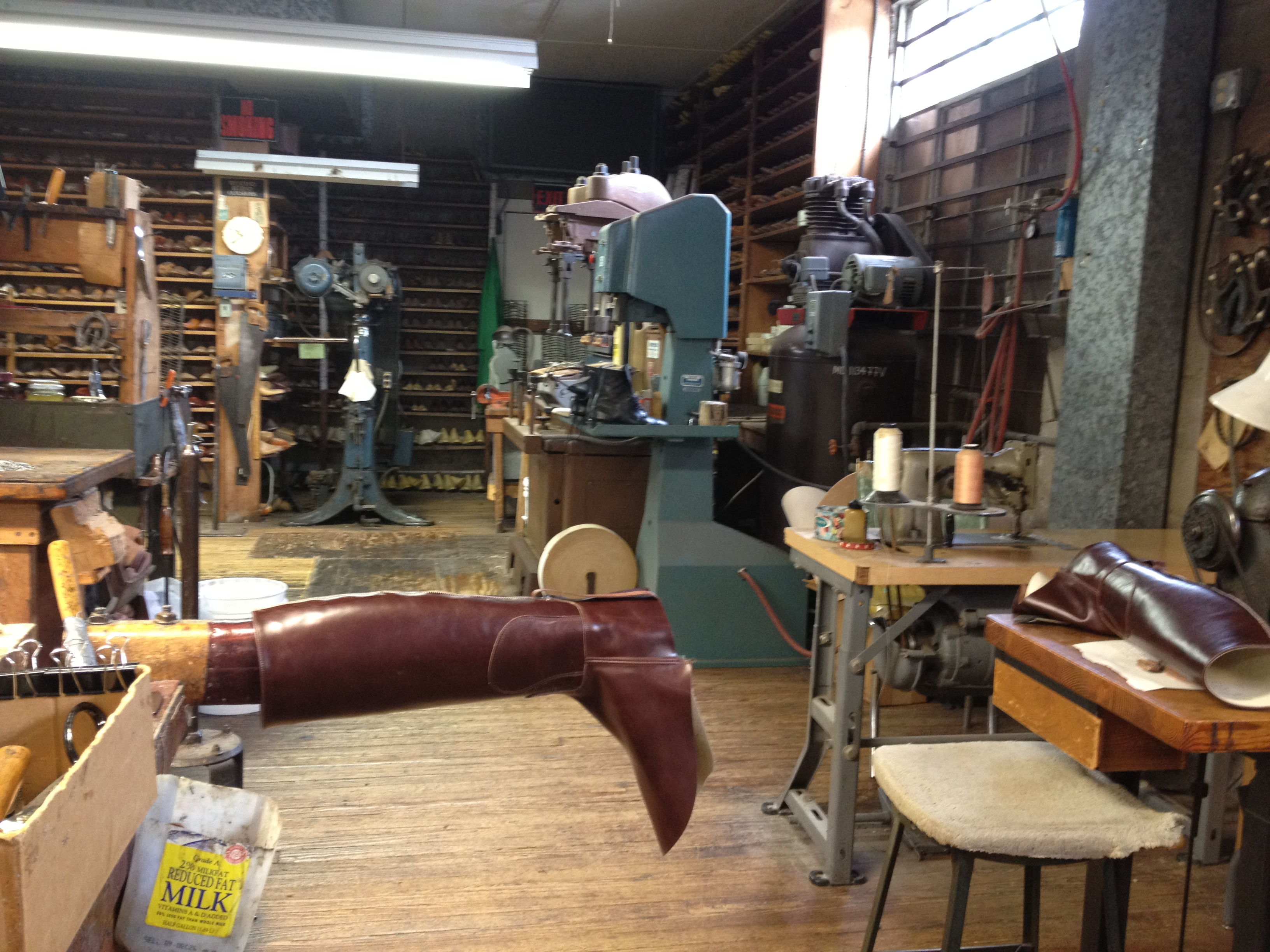 The interior of A.M. Kroop and Sons, Inc. workshop. The business moved to Maryland in 1927 and specializes in riding shoes and boots.